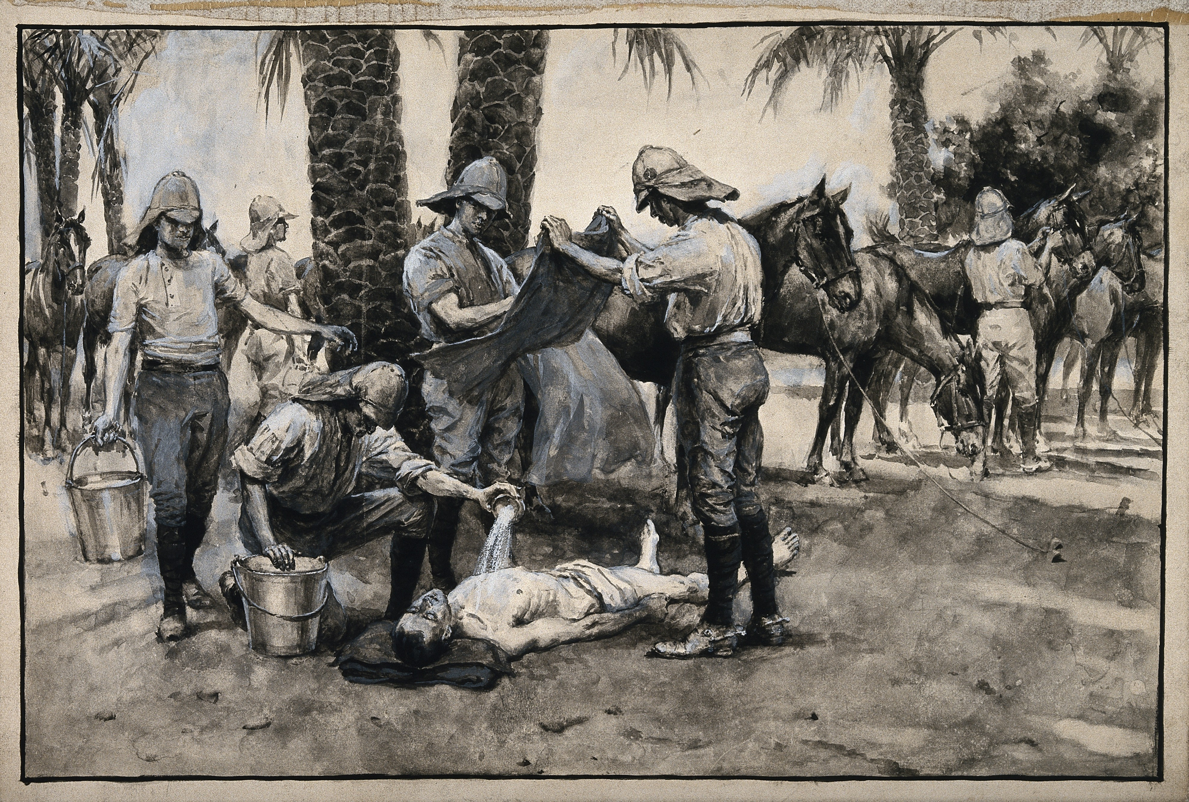 Metemma, Sudan: soldiers treating a trooper with severe sunstroke. Watercolour drawing. Iconographic Collections Keywords: Bishop